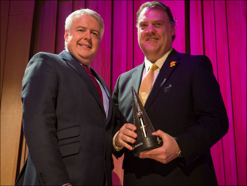 St David Awards. Left: Carwyn Jones, First Minister with Bryn Terfel, accepting the St David Award. 2014.